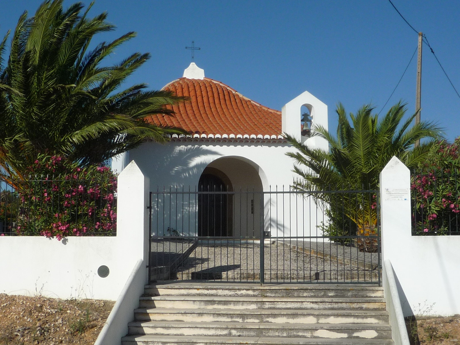 The Chapel of Saint Anthony in Marmelete, Monchique, Algarve. More images.